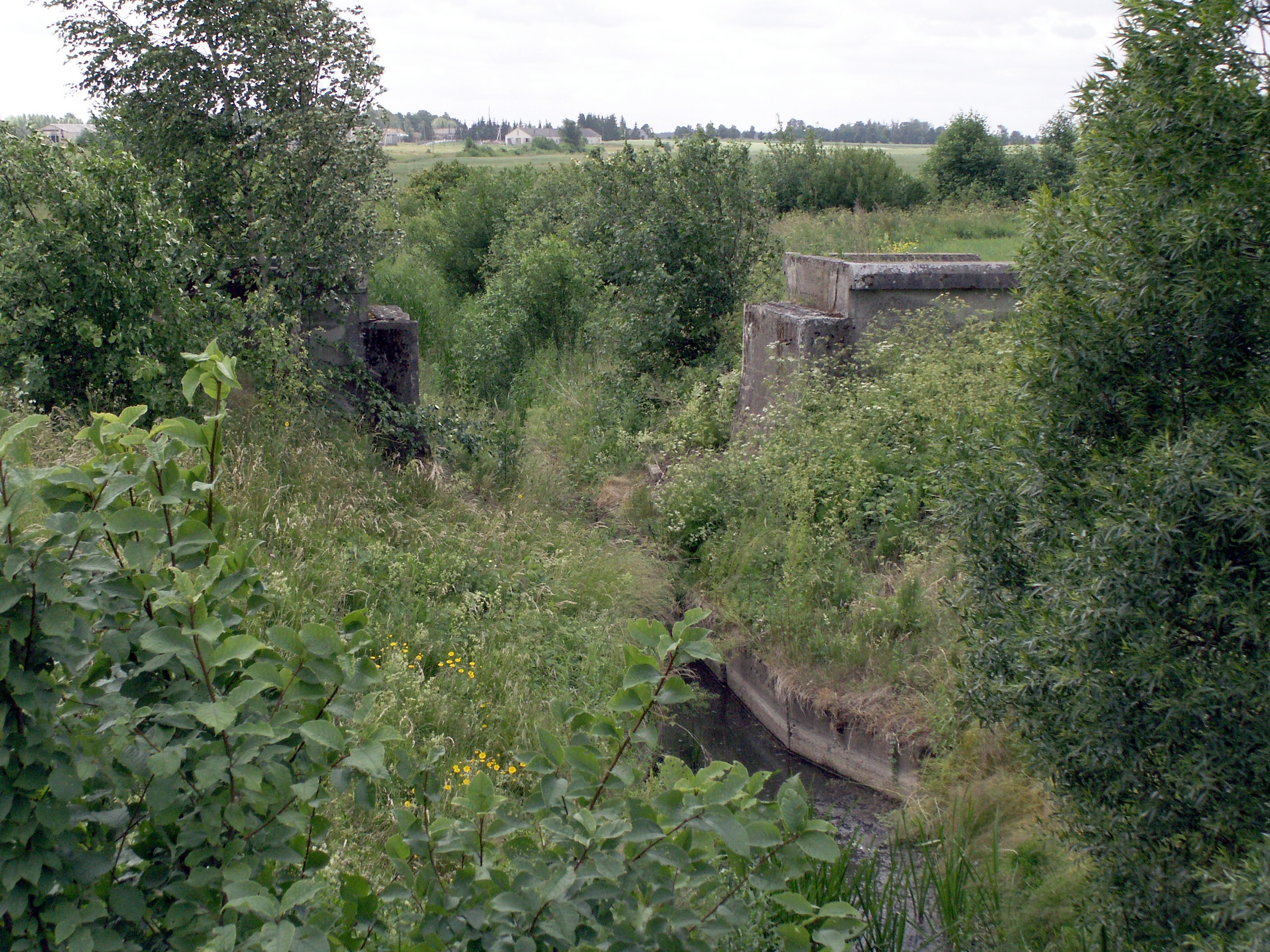 Old bridge, Šiauliai district